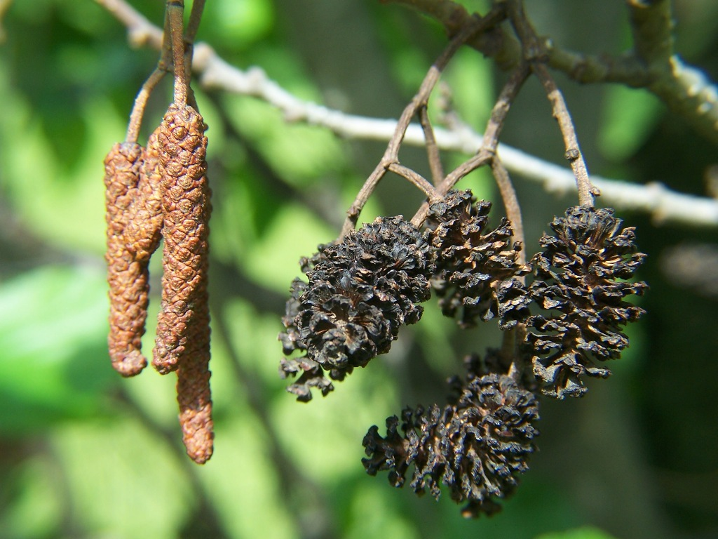 Alnus glutinosa male and female flowers. (Male on left. Morton Arboretum acc. 613-57*3